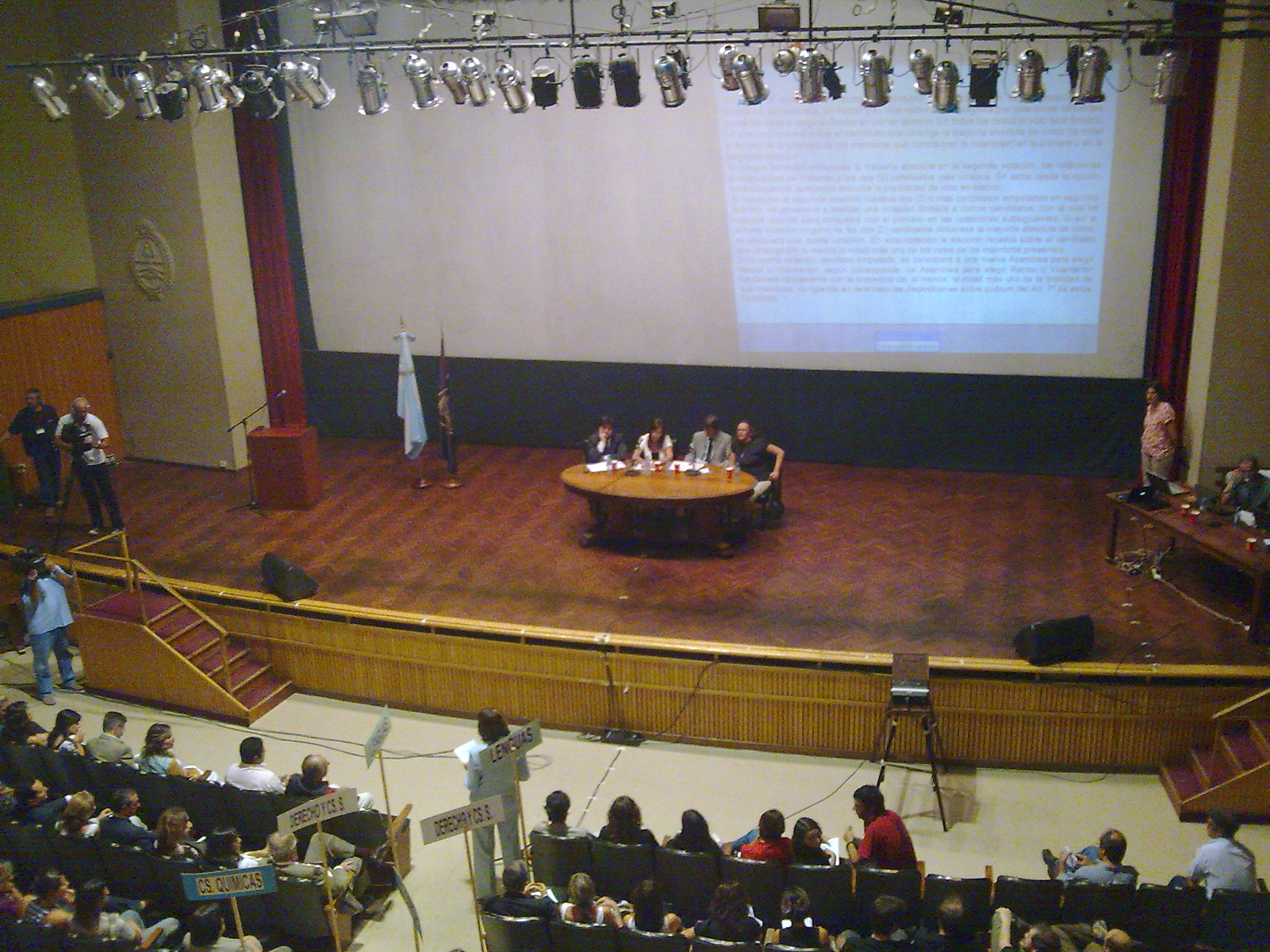 University Assembly to elect the Rector of the National University of Cordoba. Cordoba, Argentina.